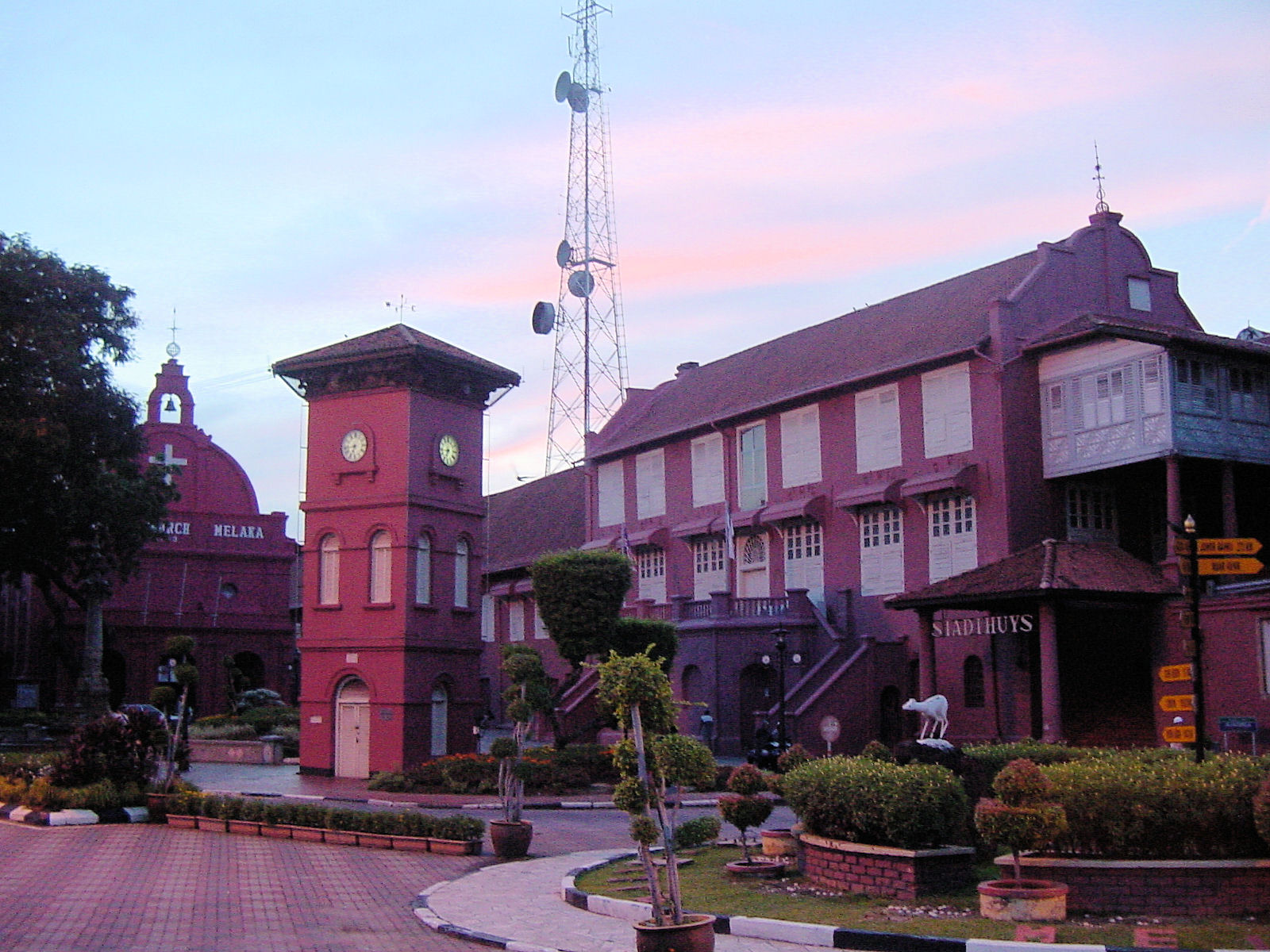 A photograph of the Stadthuys and Christ Church in Malacca, Malaysia